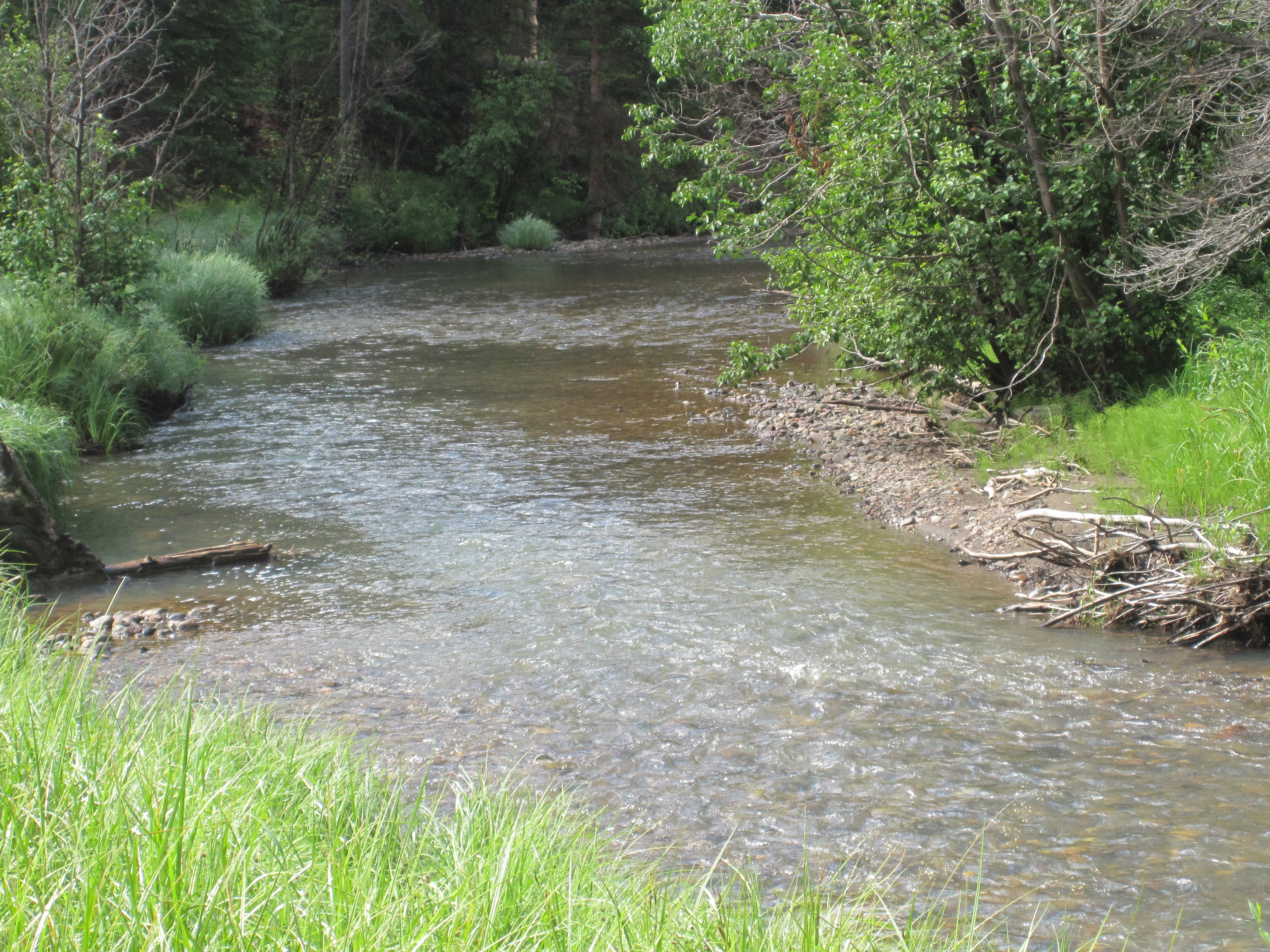 I took photo with Canon camera in RMNP, CO.